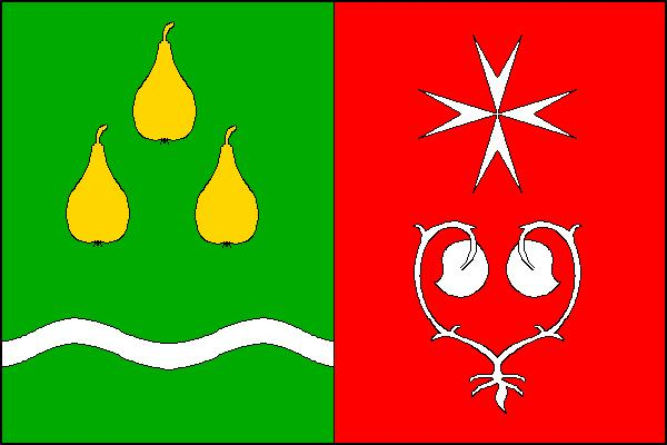 Municipal flag of Hrušky village, Vyškov District, Czech Republic.